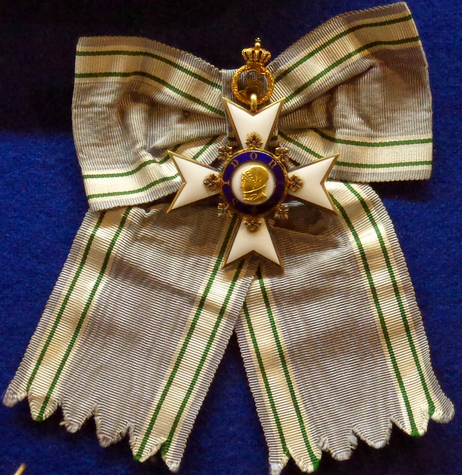 Order of Sidonia, badge and ribbon. Kingdom of Saxony. The exhibition of the Tallinn Museum of Orders of Knighthood, Estonia.